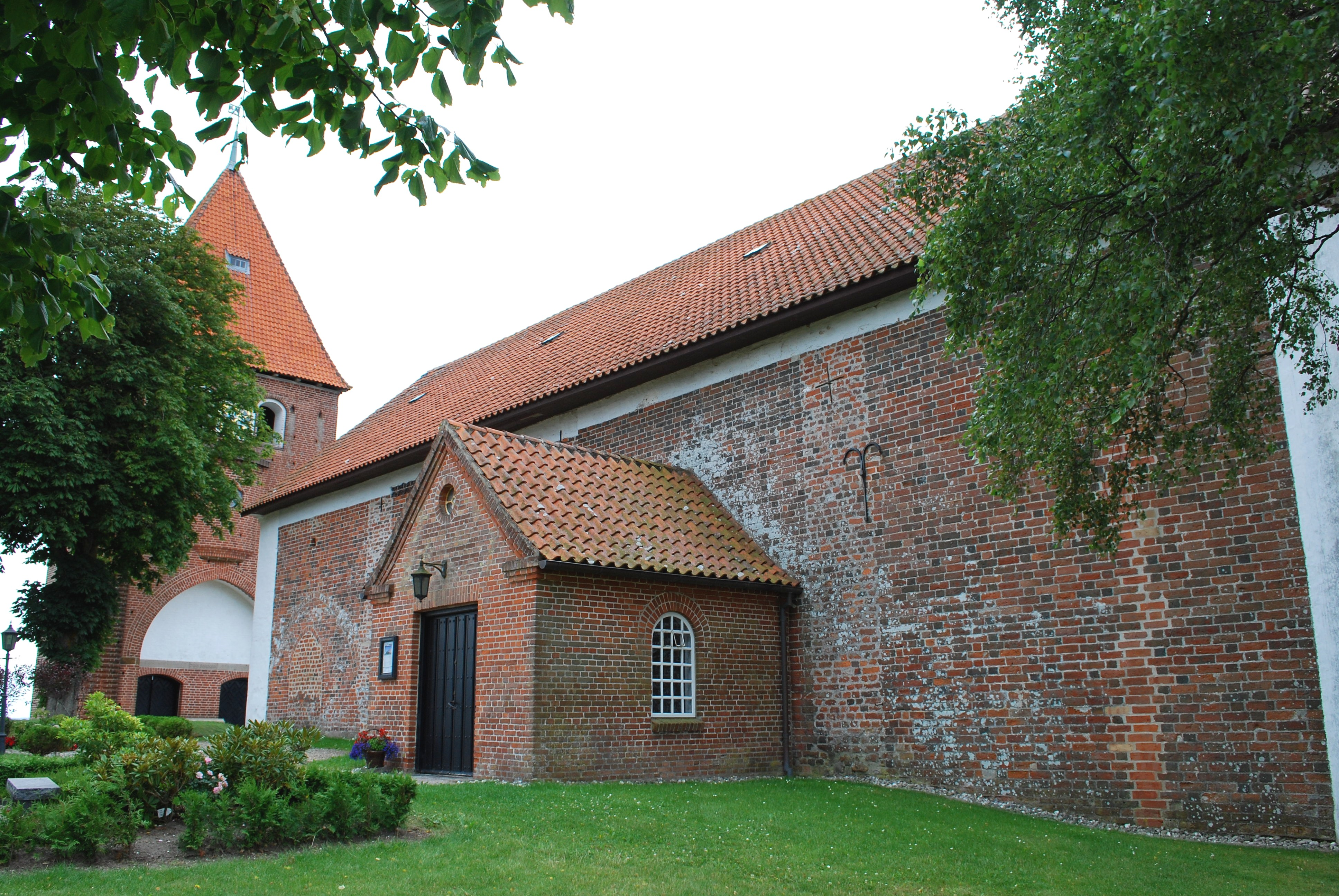 Sankt Sørens Kirke, Gammel Rye, Denmark